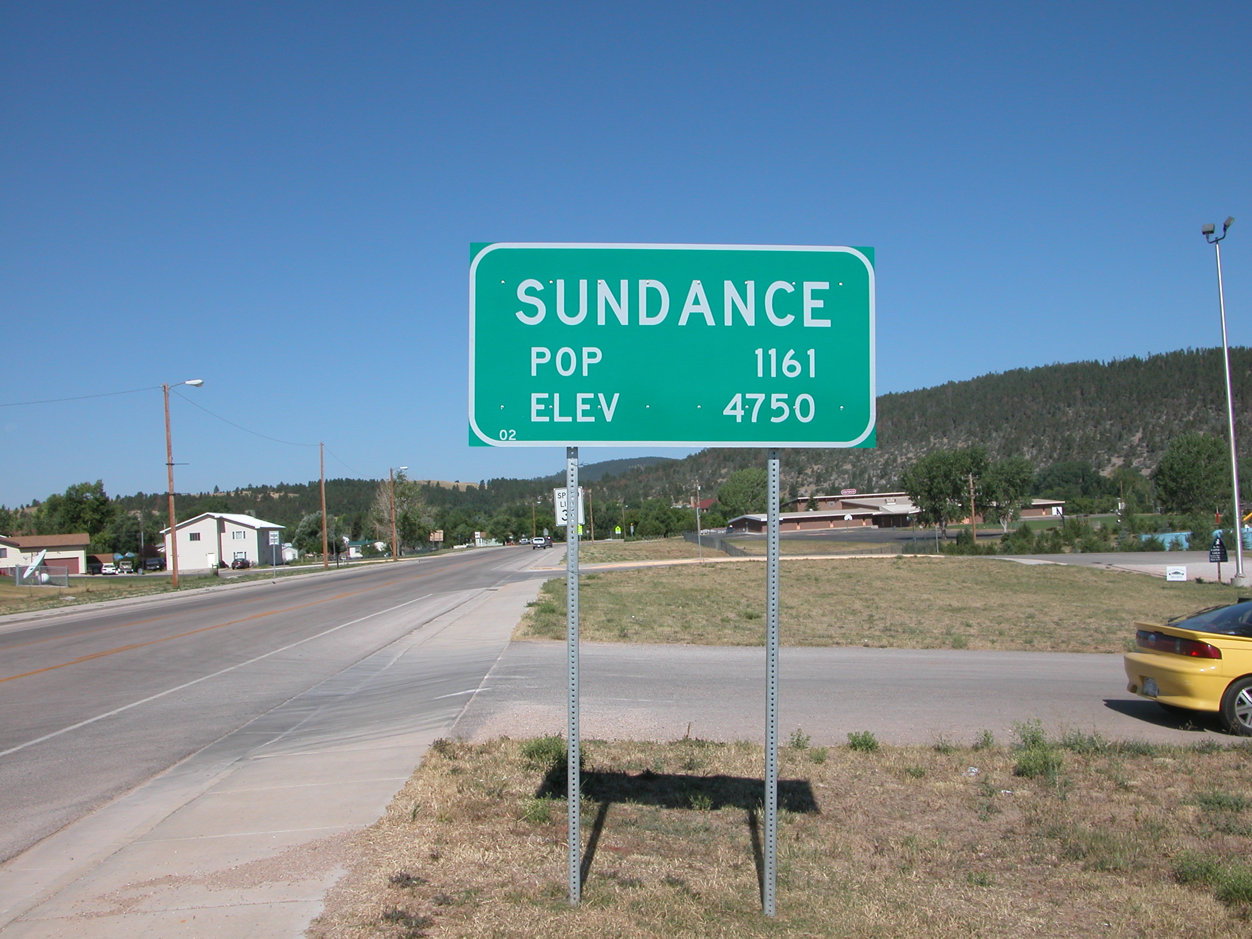 Sundance, Wyoming city limit sign.